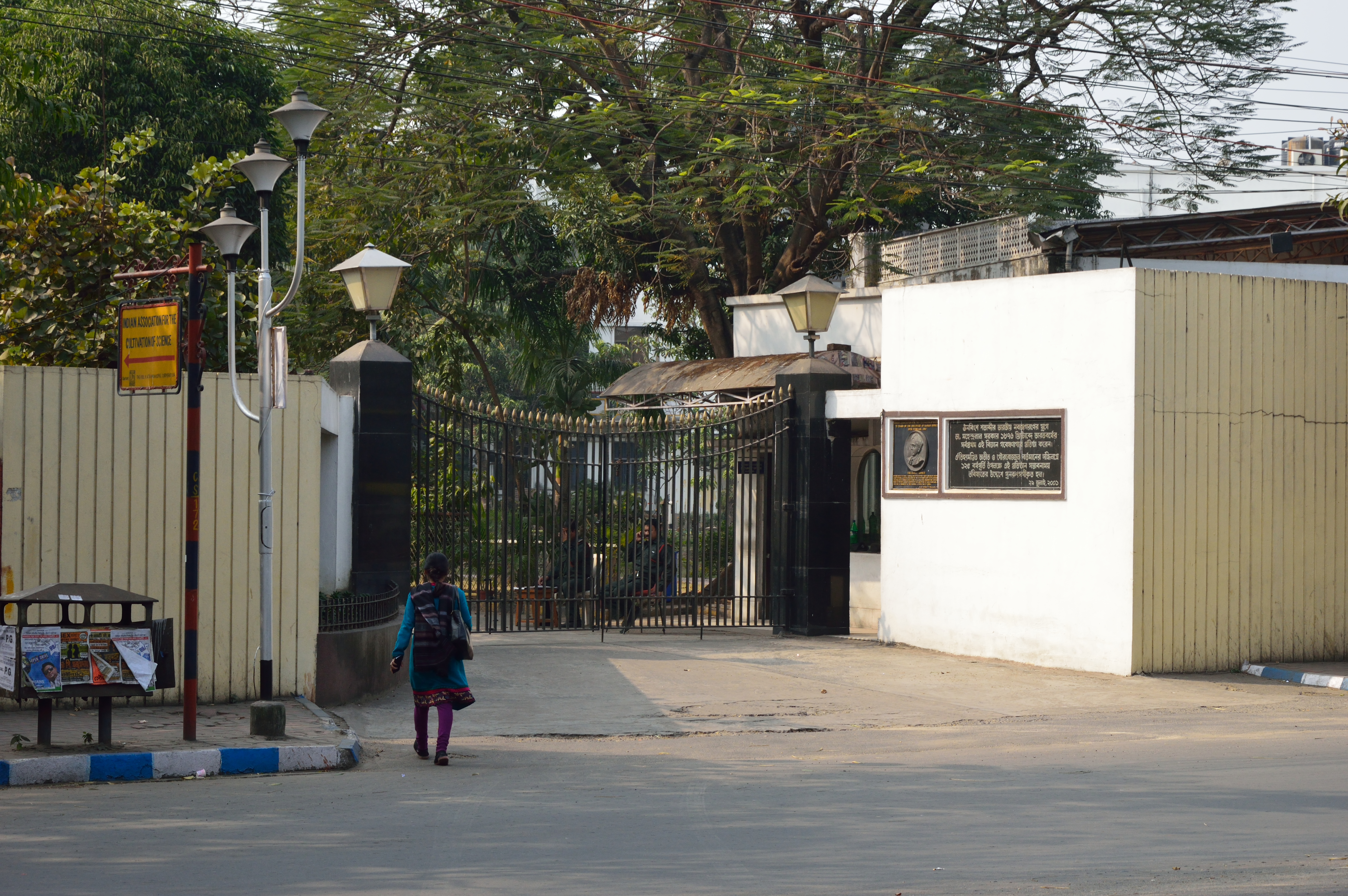 This photograph was taken adavpur, kolkata.